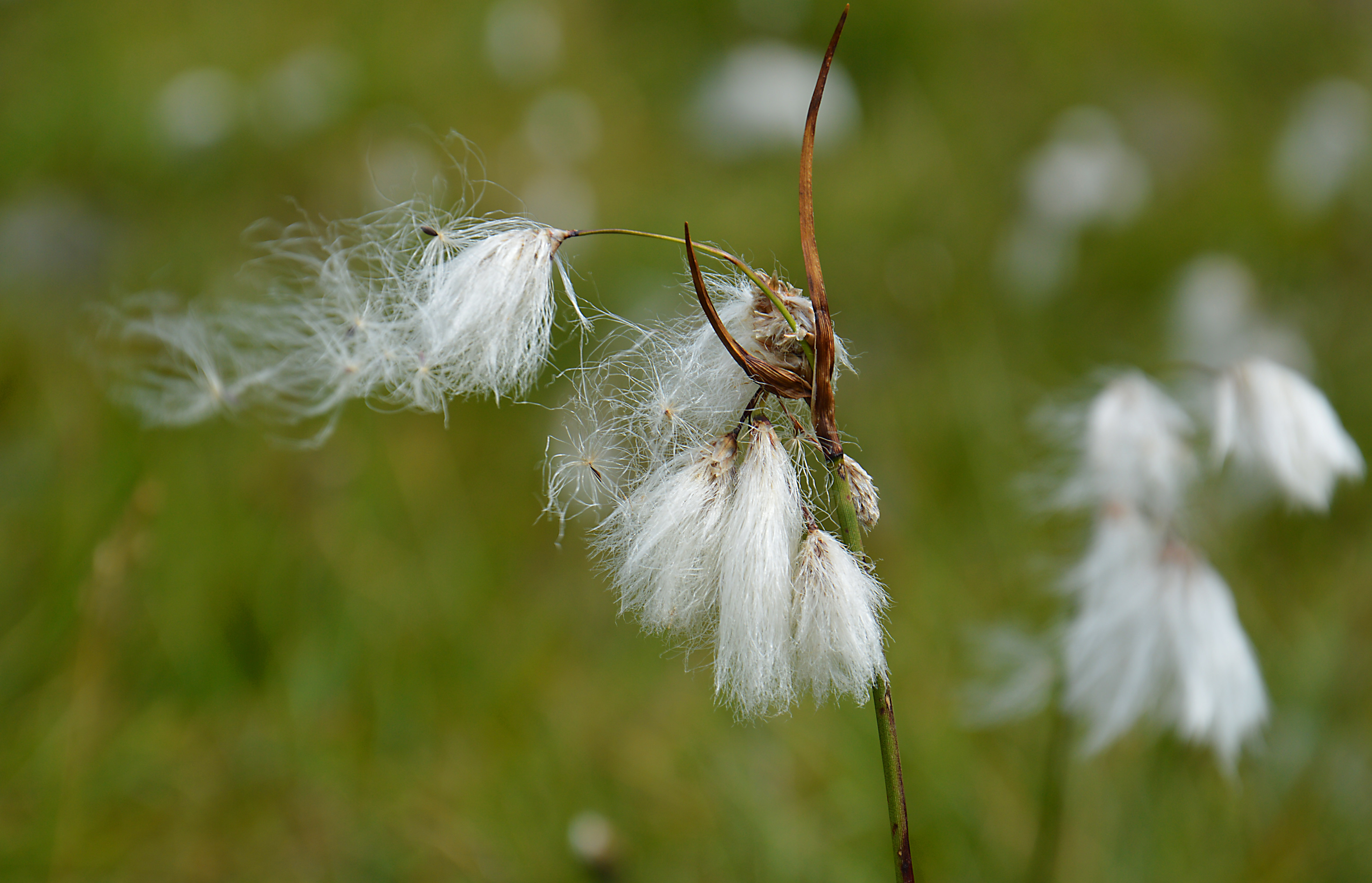 Common Cottongrass (Eriophorum angustifolium) Fam. Cyperaceae Robiei - Canton Ticino Svizzera